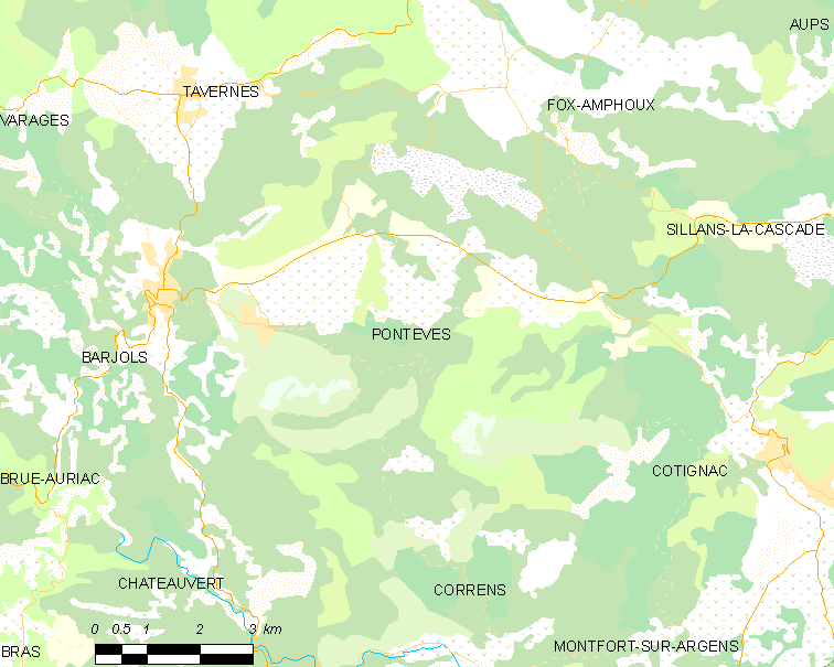 Map of French municipality Pontevès